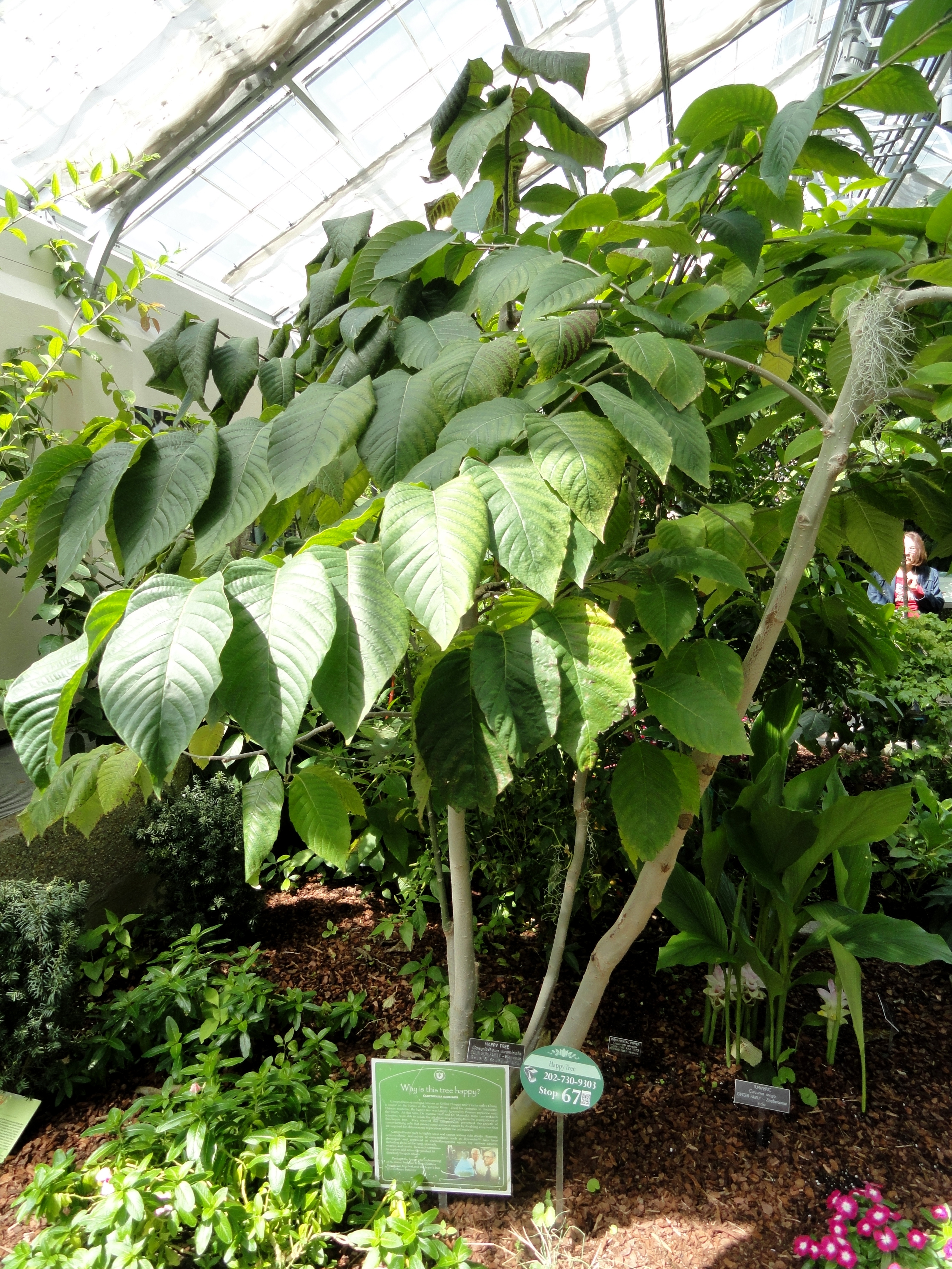 Botanical specimen in the United States Botanic Garden, Washington, DC, USA.